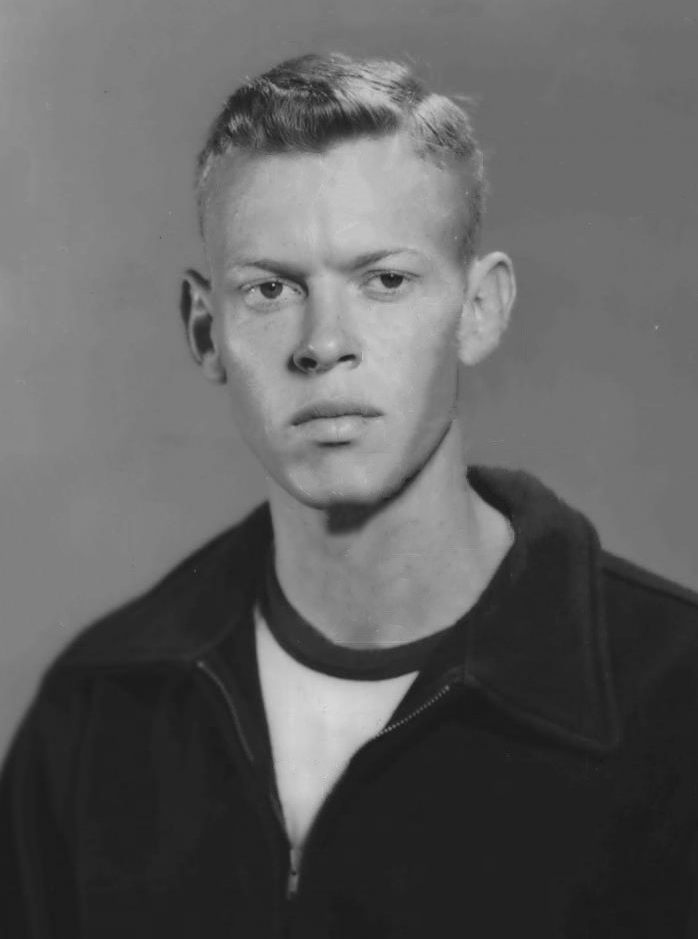 1958 Press Photo American modern pentathlon competitor Robert Lee Beck